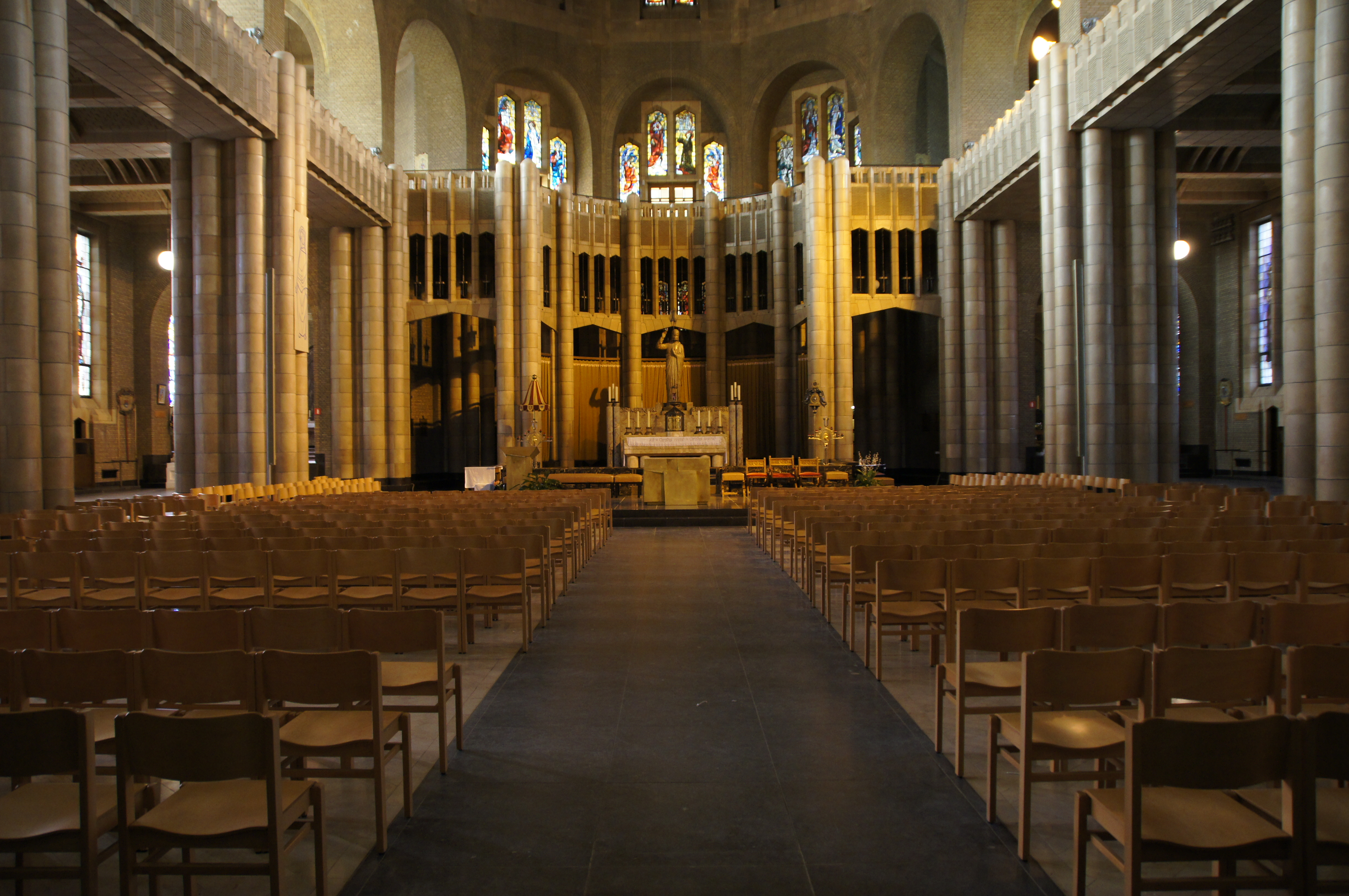 Inside the Basilica of the Sacred Heart, Brussels.